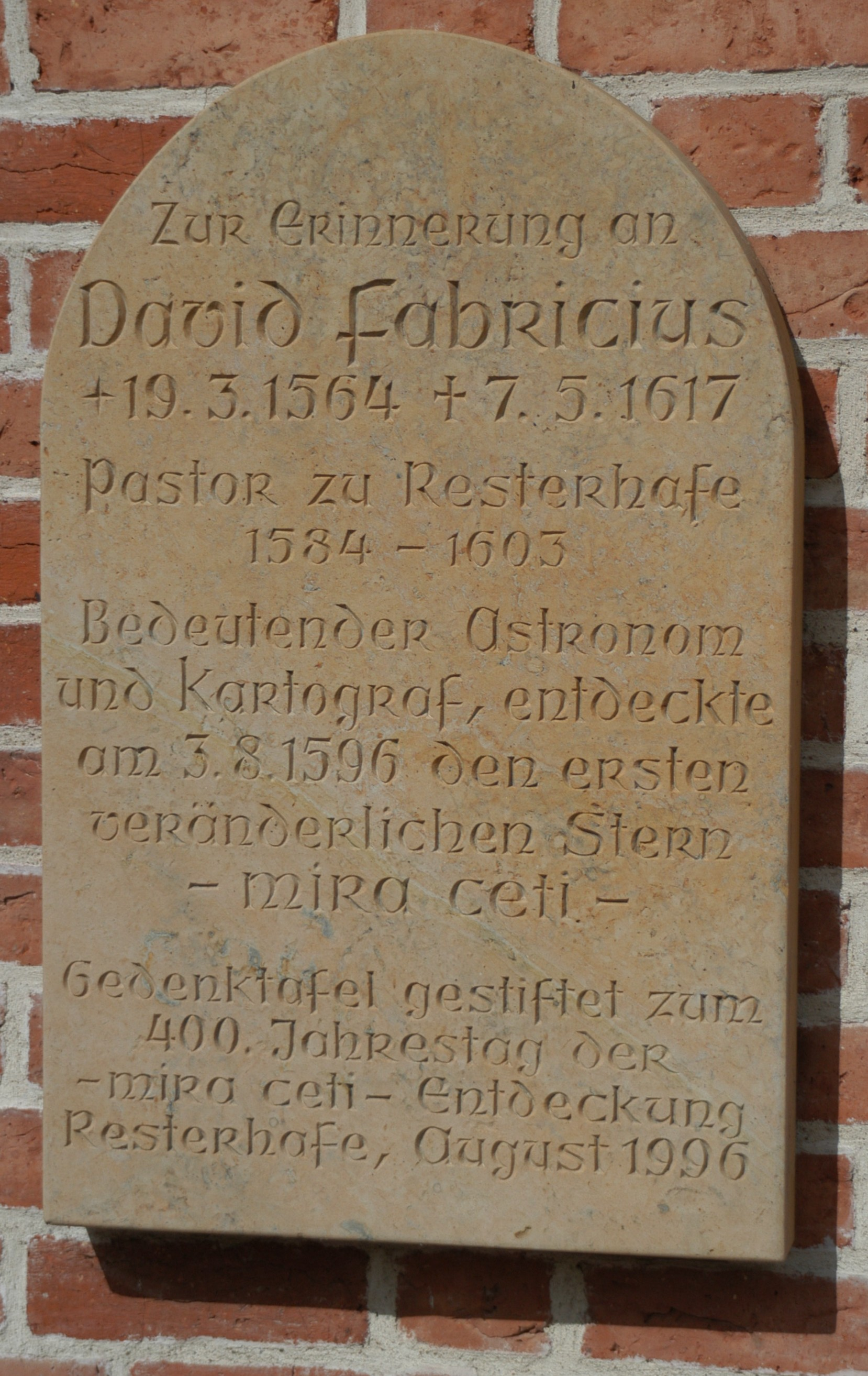 Plaque for astronomer David Fabricius on the wall of the church of Resterhafe